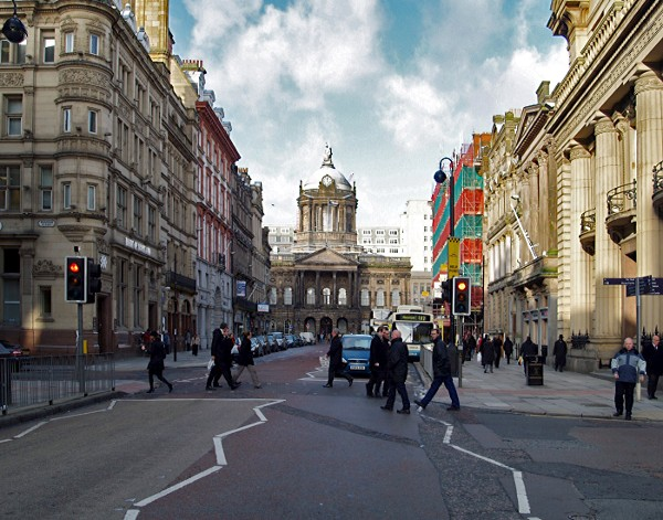 This is a photograph taken by Robert Smith of Castle street Liverpool, released into public domain.